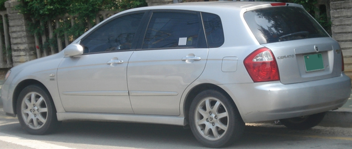 Kia Cerato Euro